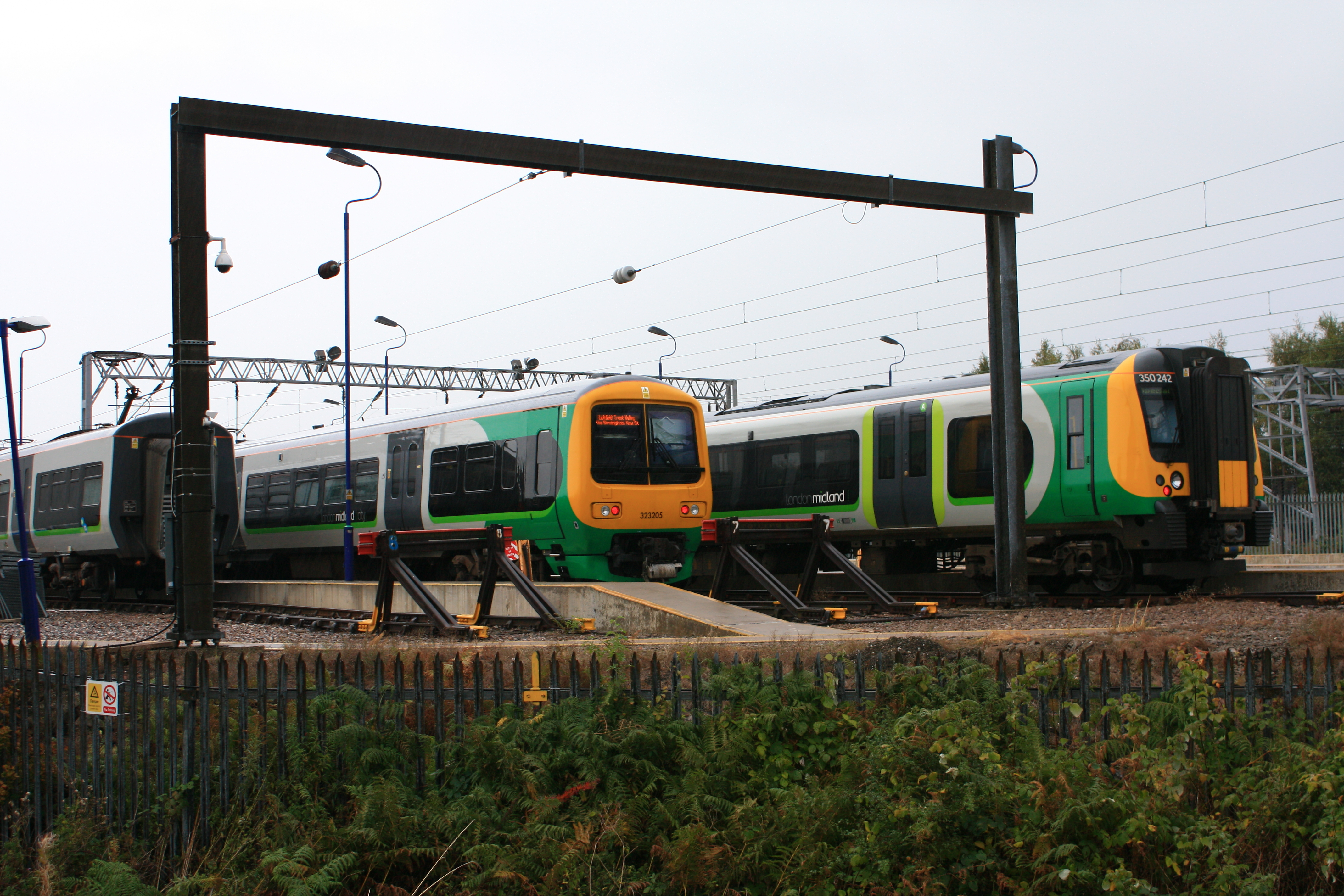 Winson Green, Birmingham UK